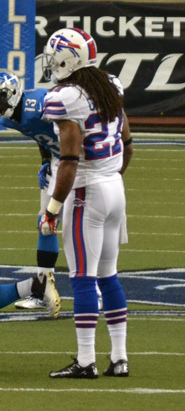 Buffalo Bills and Detroit Lions in the preseason, 2012.